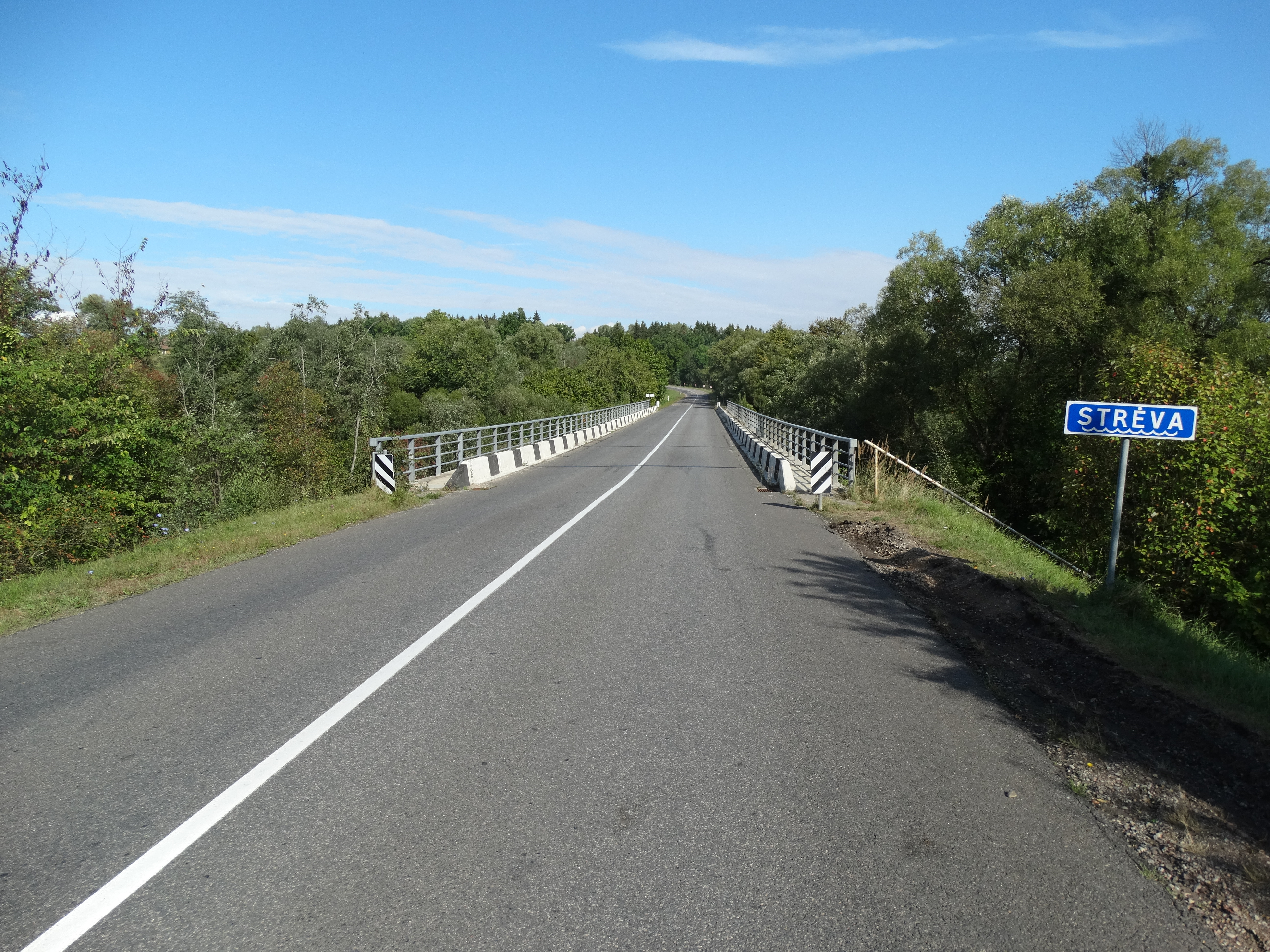 Regional road 188 by Tadarava, Kaišiadorys district, Lithuania